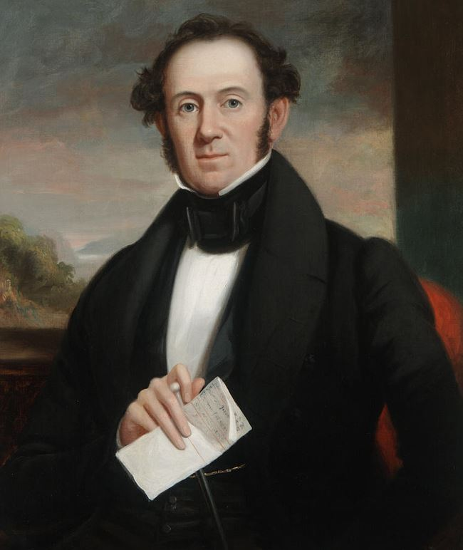 Portrait of Martin Van Buren